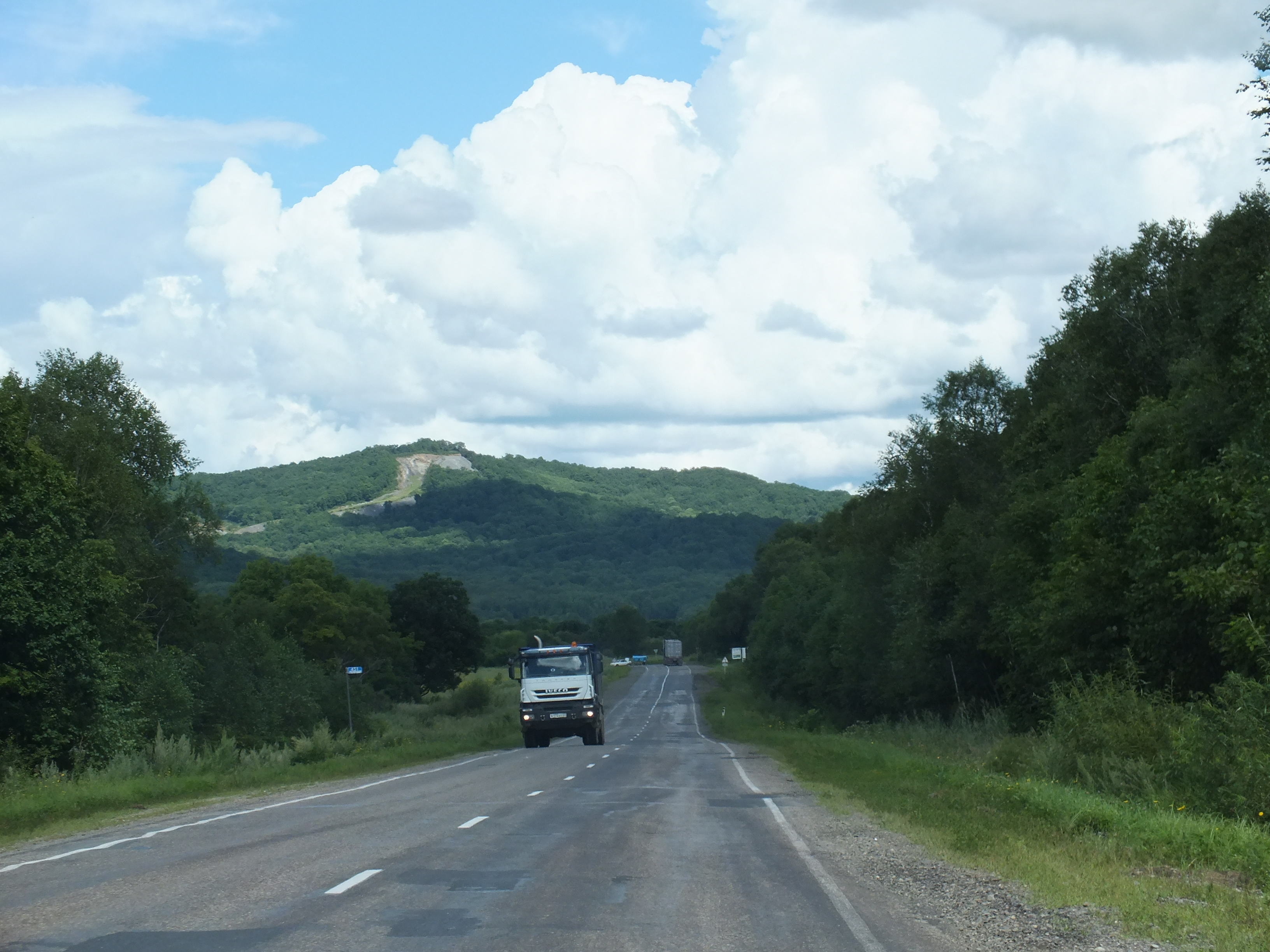 Znamenka Primorskiy kray